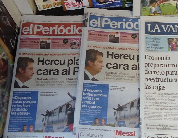 El Periódico newspaper from Barcelona – the Spanish-language edition has a red masthead, the Catalan-language edition has a blue masthead.